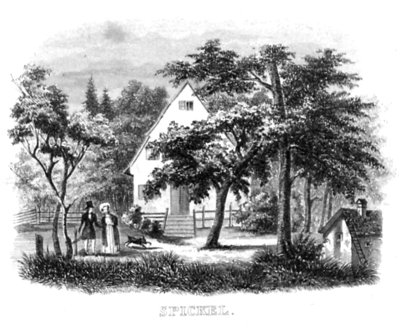 Spickel Restaurant, Augsburg, 1820, engraving